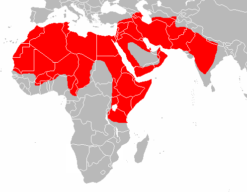 Range map of Striped Hyena (Hyaena hyaena)